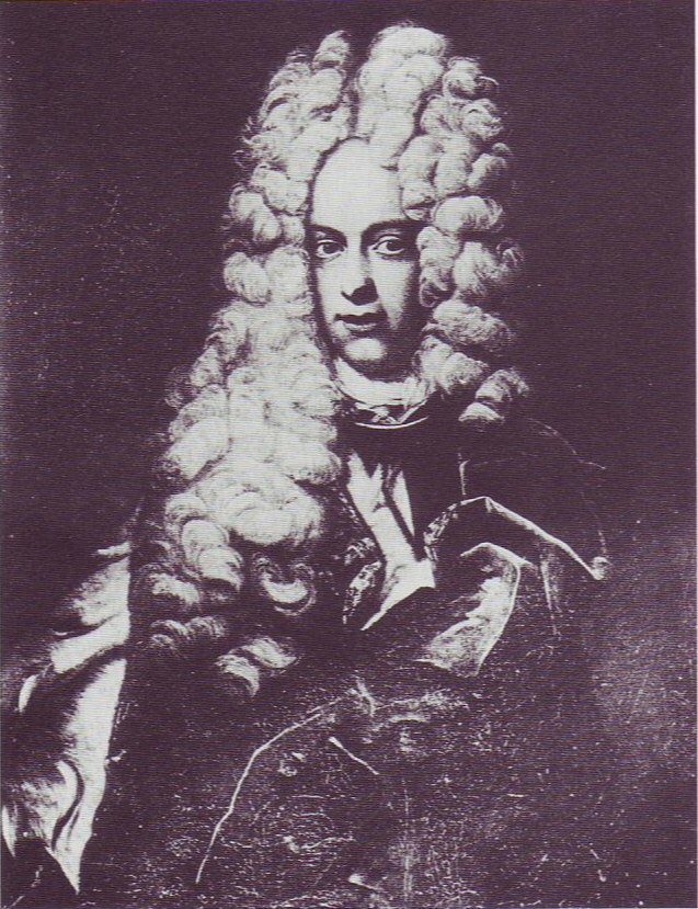 Emanuel-Thomas of Savoy (1687-1729), the oldest nephew of Prince Eugene of Savoy (1663-1736), by David Richter, the Older, Villa Racconigi, Turino. Oil on canvas, 94 x 75,5 cm.